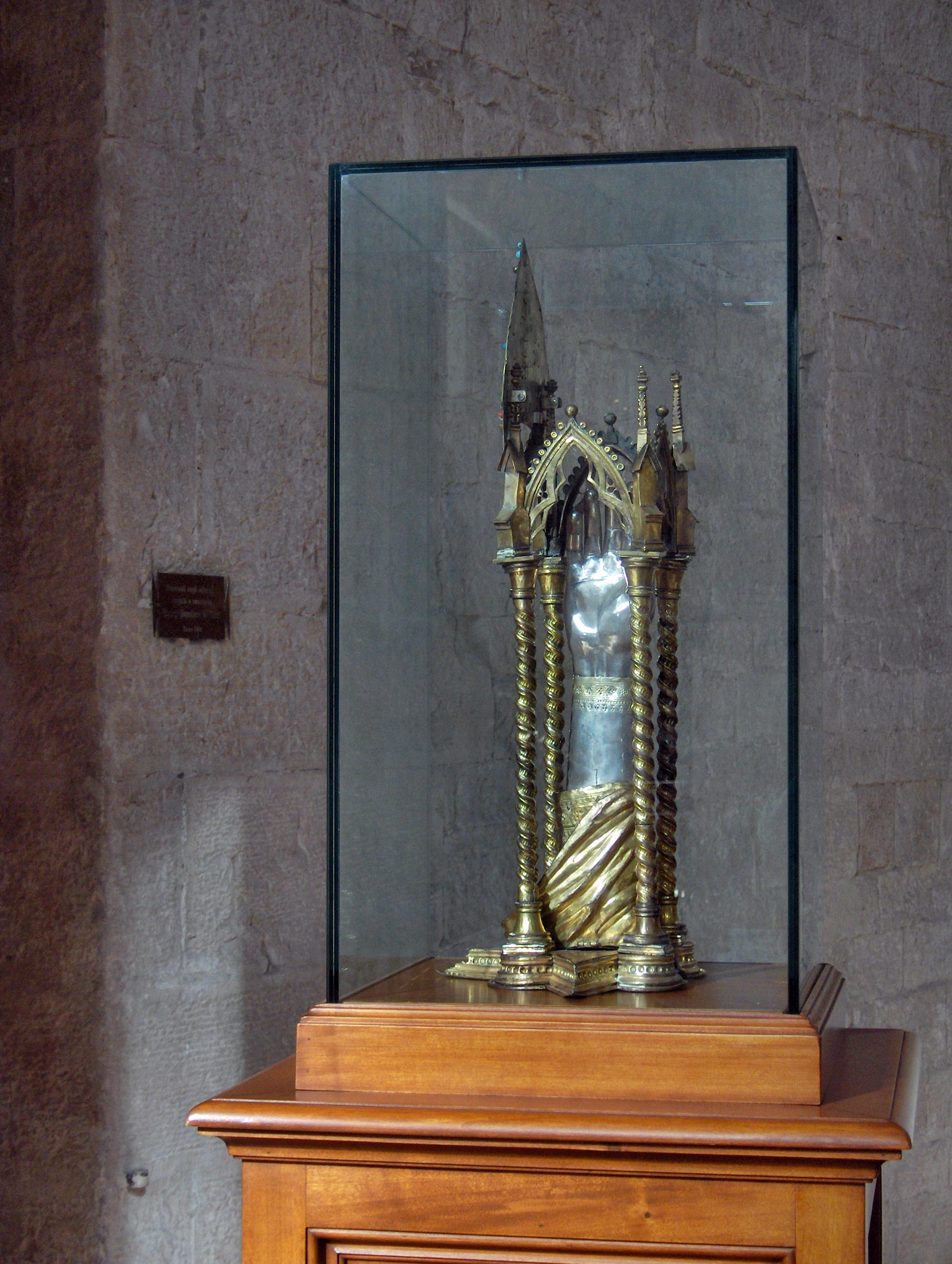 Silver and copper reliquary with the arm of S. Fortunato; by Cataluccio di Pietro, (1361-1419) in the crypt of the church of San Fortunato, Todi, Umbria, Italy